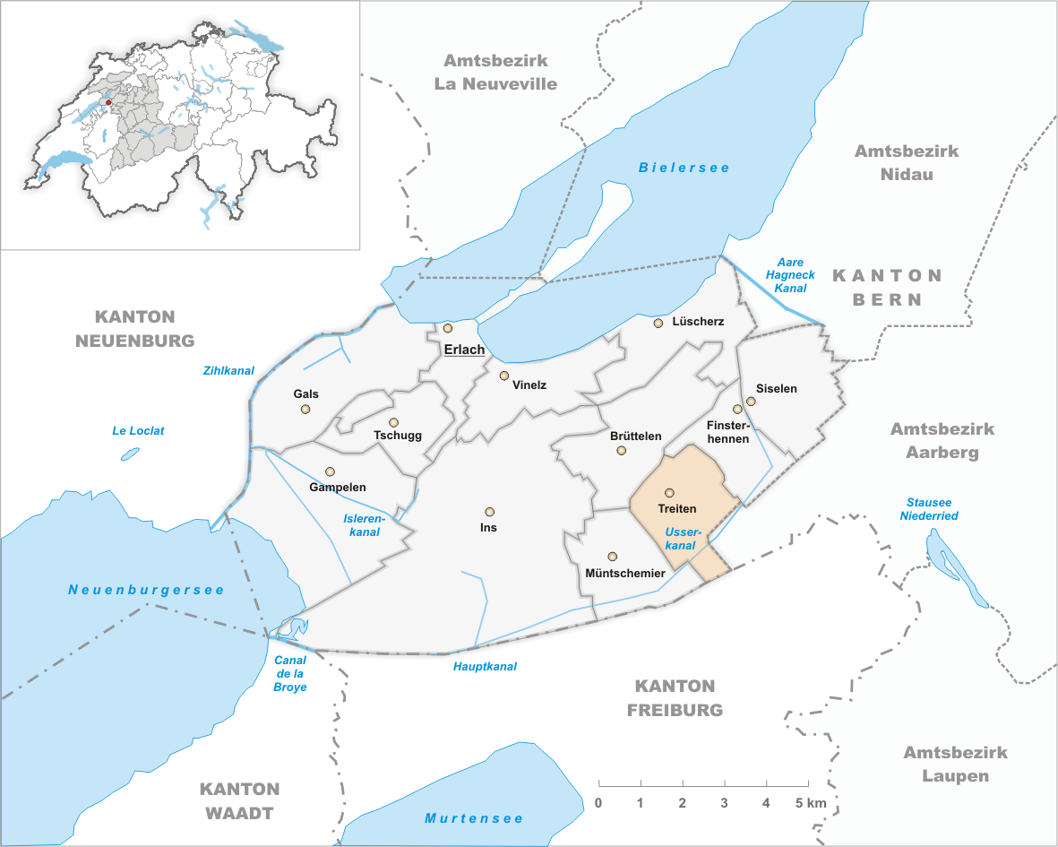 Municipality Treiten